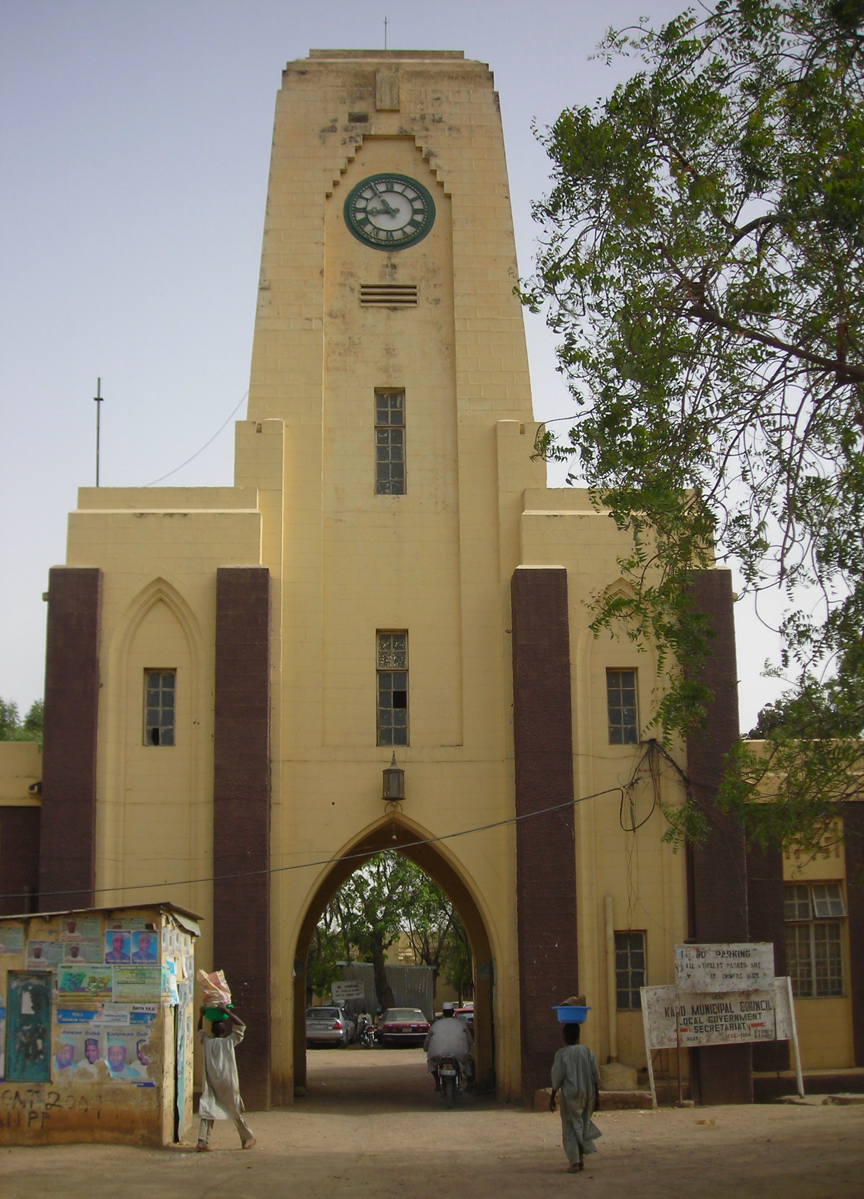 The municipal council gate and clock tower in the city of Kano, Nigeria.